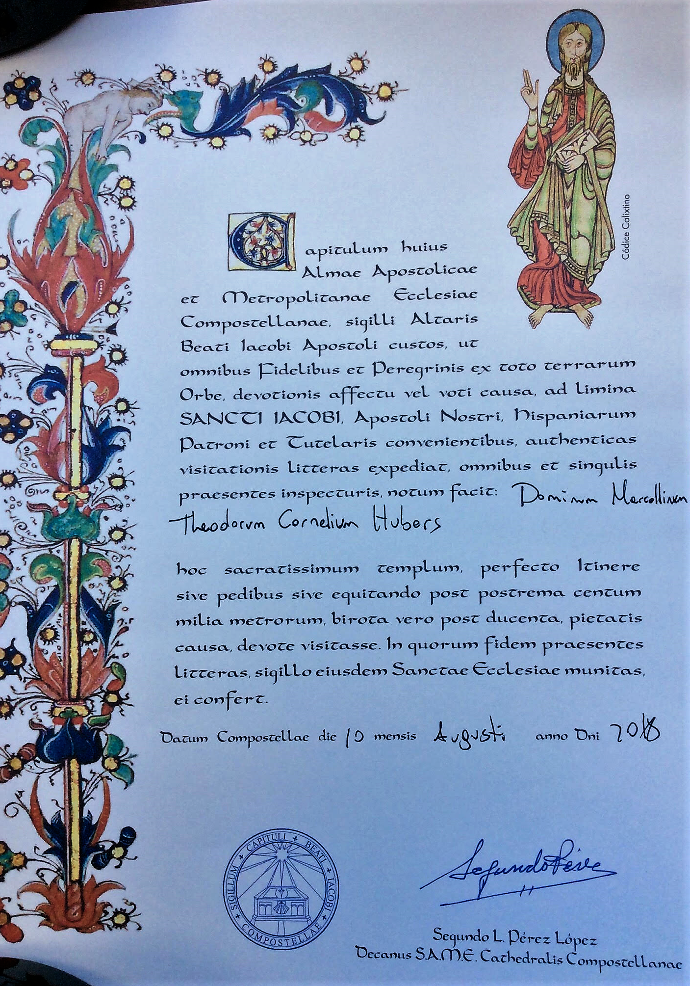 Compostella 2018